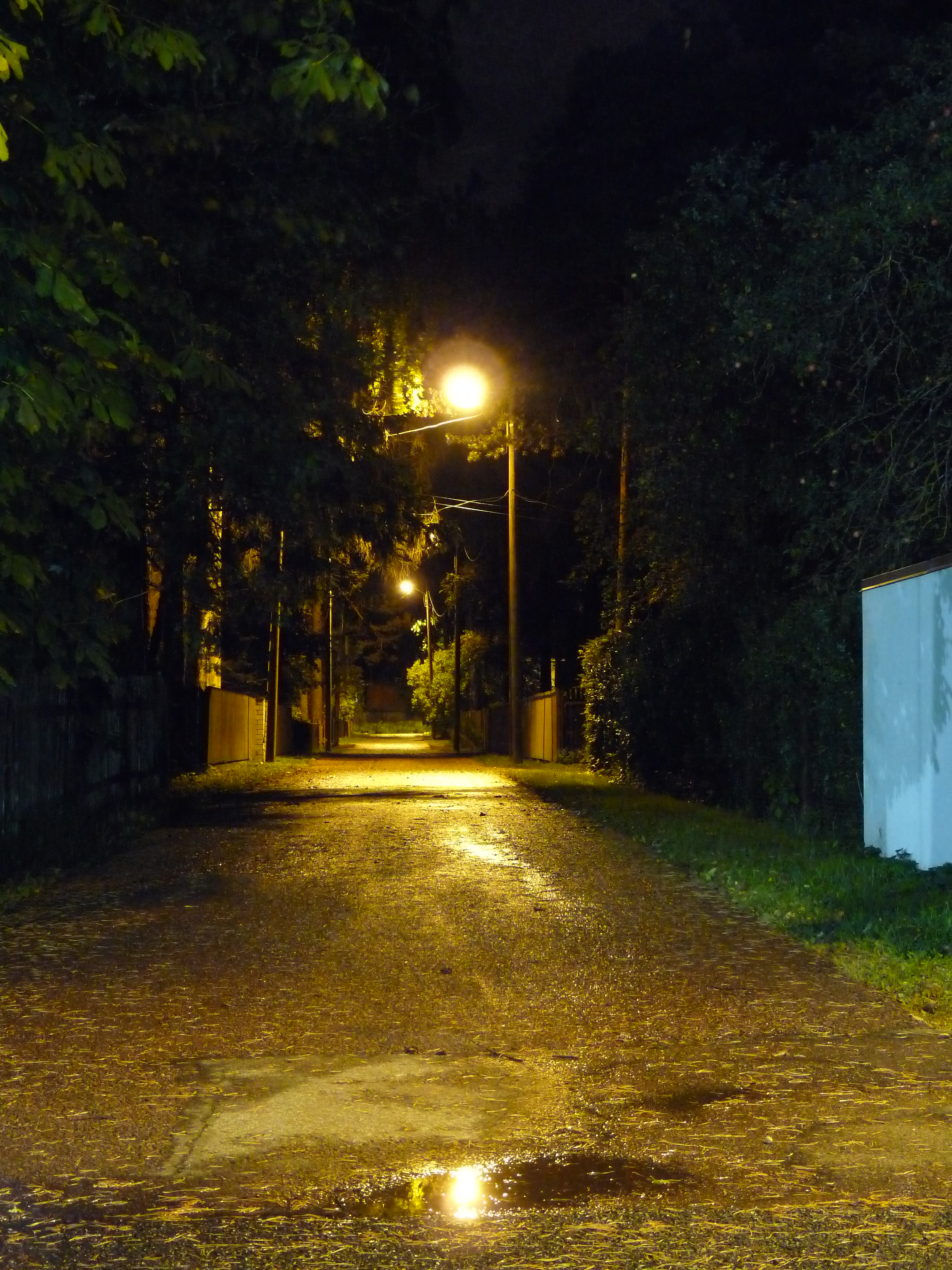 Puraviku street in Tallinn, Estonia